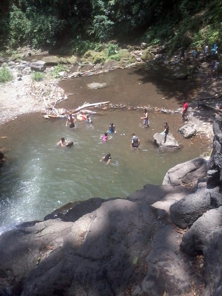 Matang Tubig Down Falls